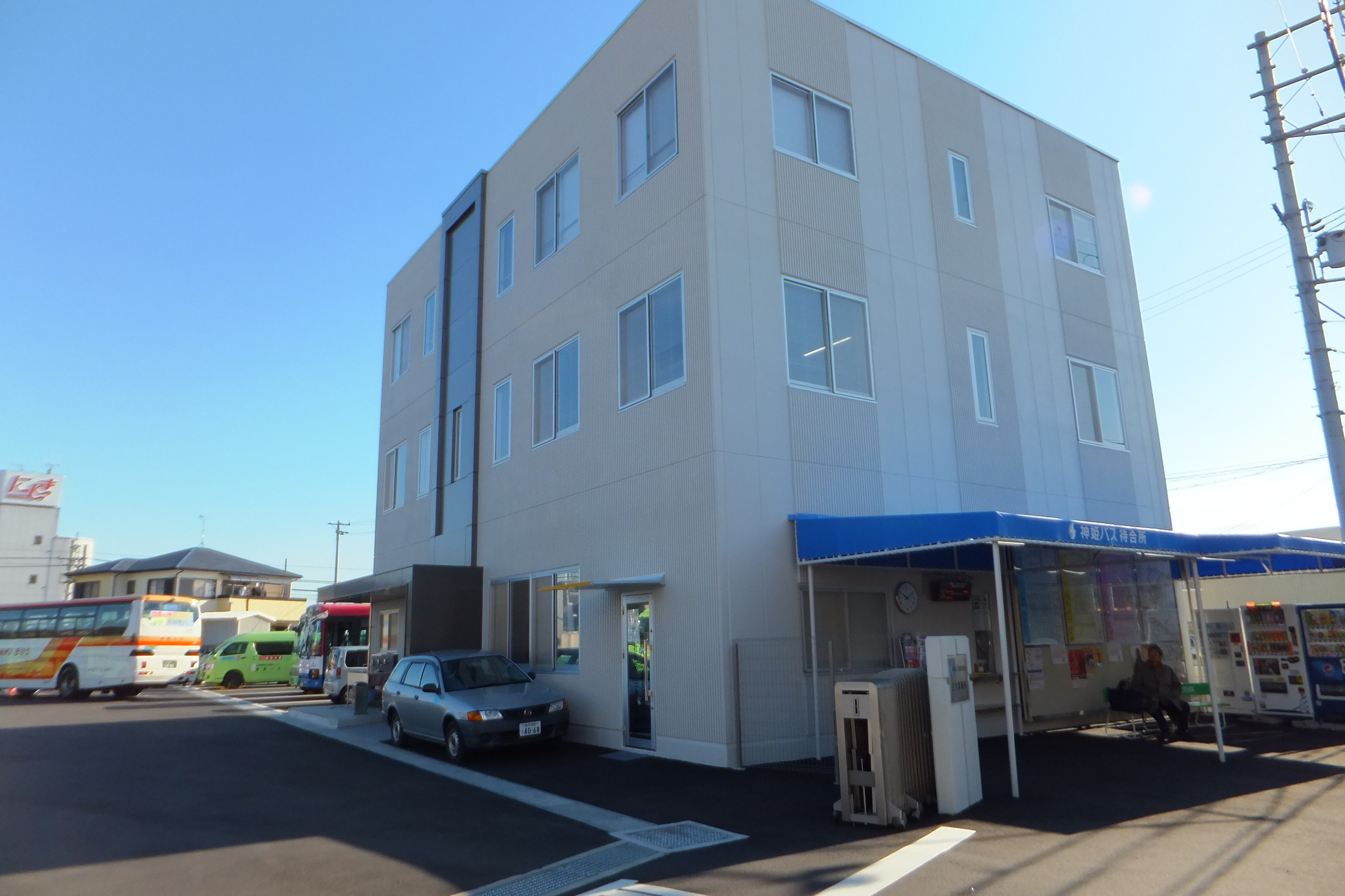 Shinki Bus Miki Depot